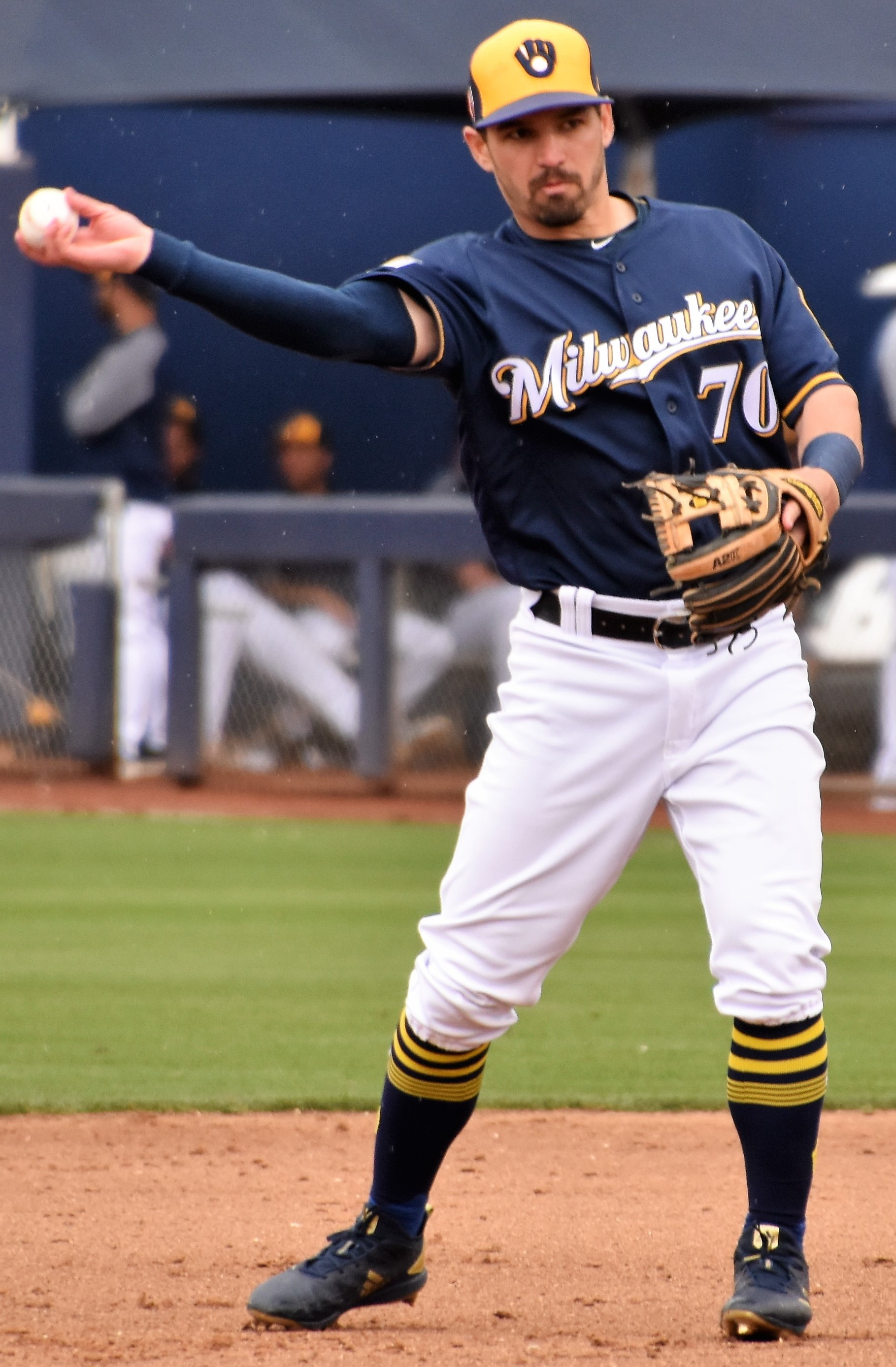 Nate Orf